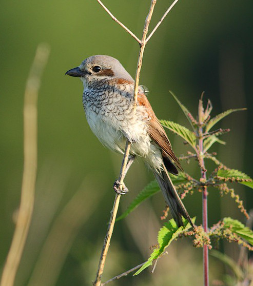 An adult female Red-backed Shrike in Poland.